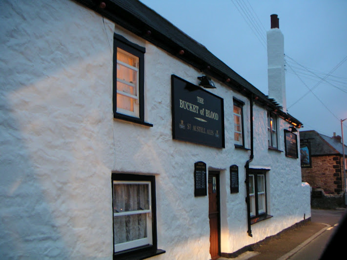 Phot of the Bucket Of Blood, Phillack, Cornwall.